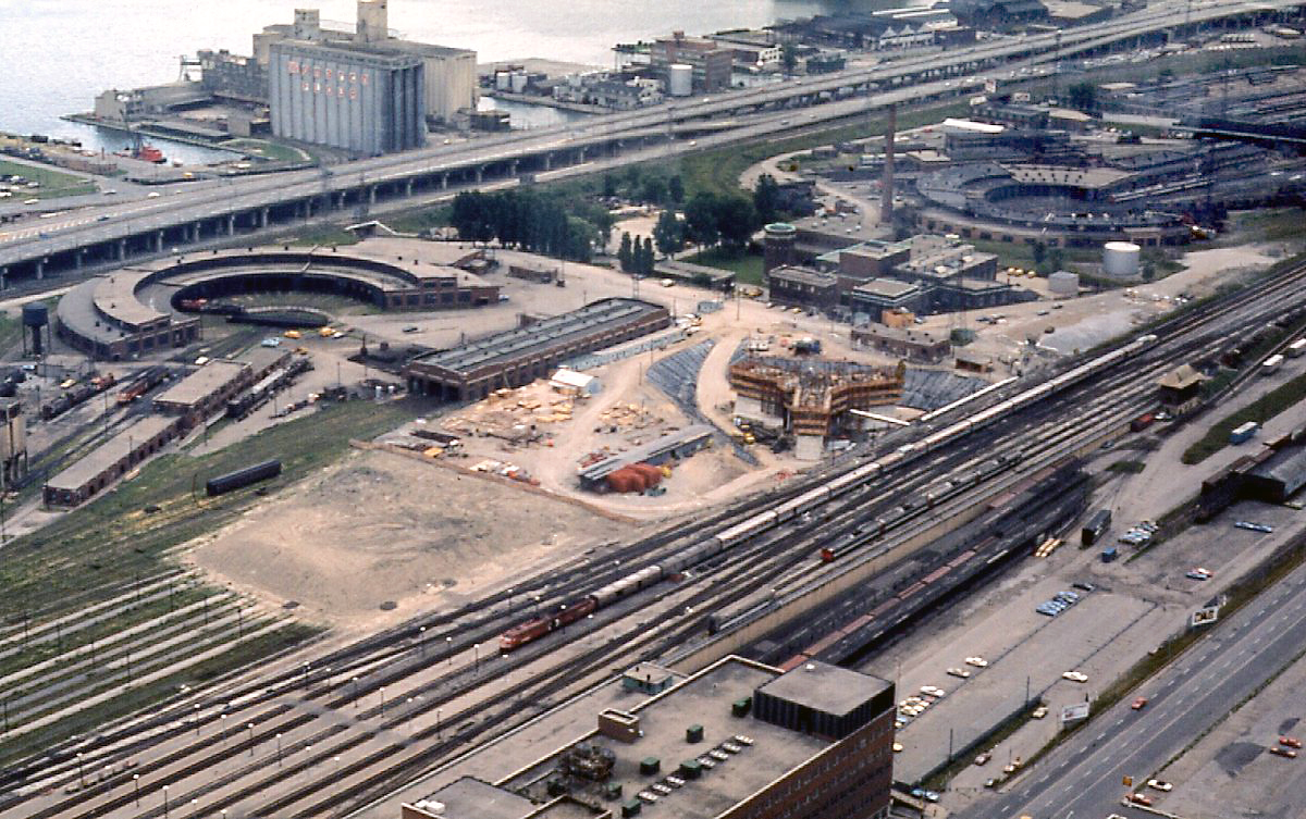 CP Rail's "The Canadian" arrives from Vancouver passing the CN Tower in its initial construction phase. The footings are in place and the concrete slip form is starting to build the tower. All the railway infrastructure except for the lines into Toronto Union Station and the CP roundhouse have been demolished.